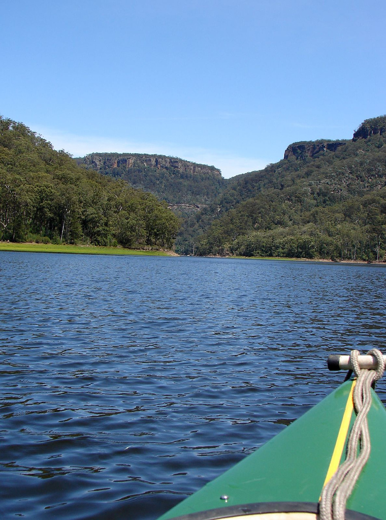 Photo of the Shoalhaven River.